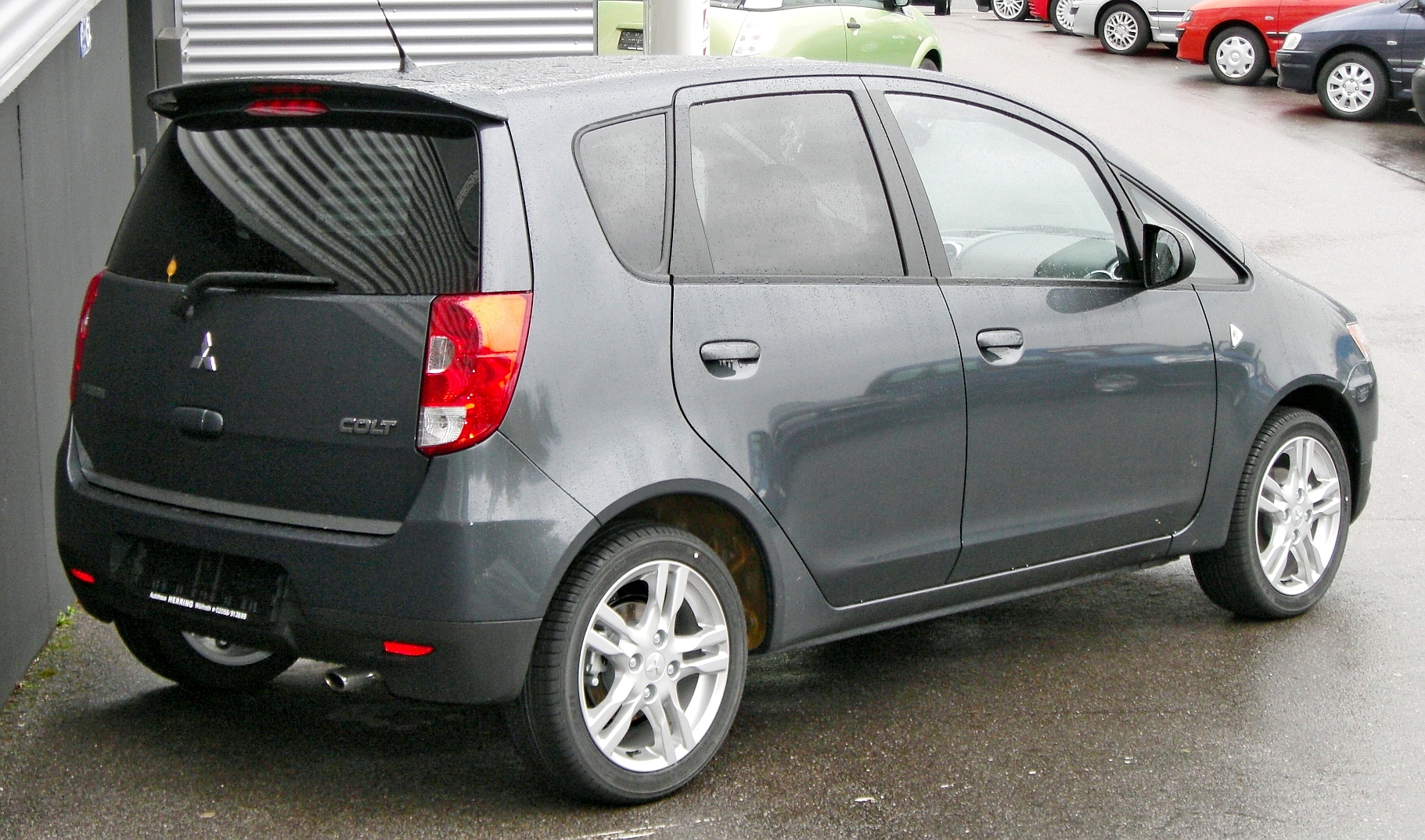 Description: Mitsubishi Colt Z30 Facelift Source: Matthias Other Version(s)